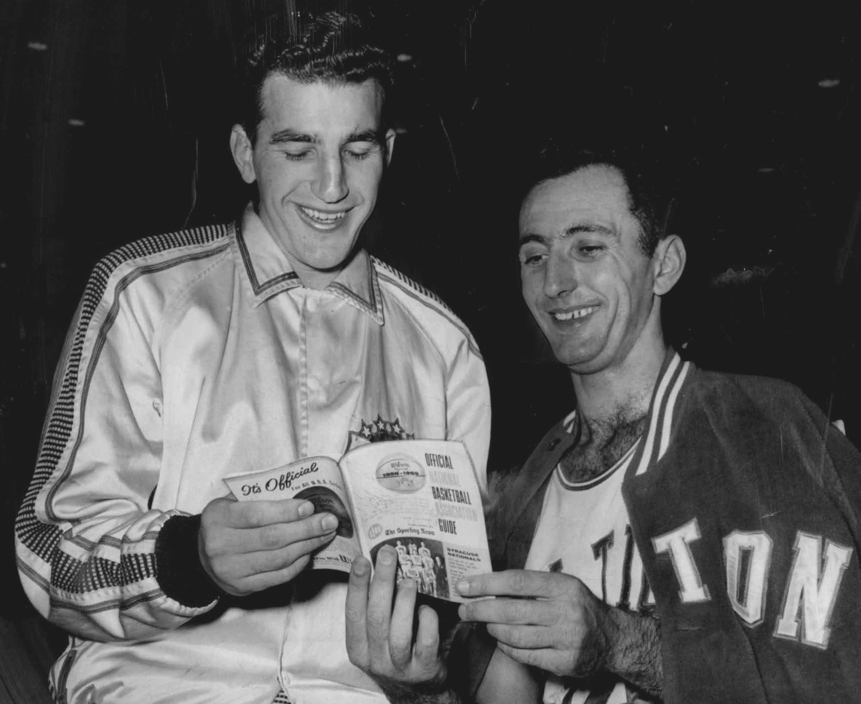 Professional basketball players Dolph Schayes (left) and Bob Cousy (right)